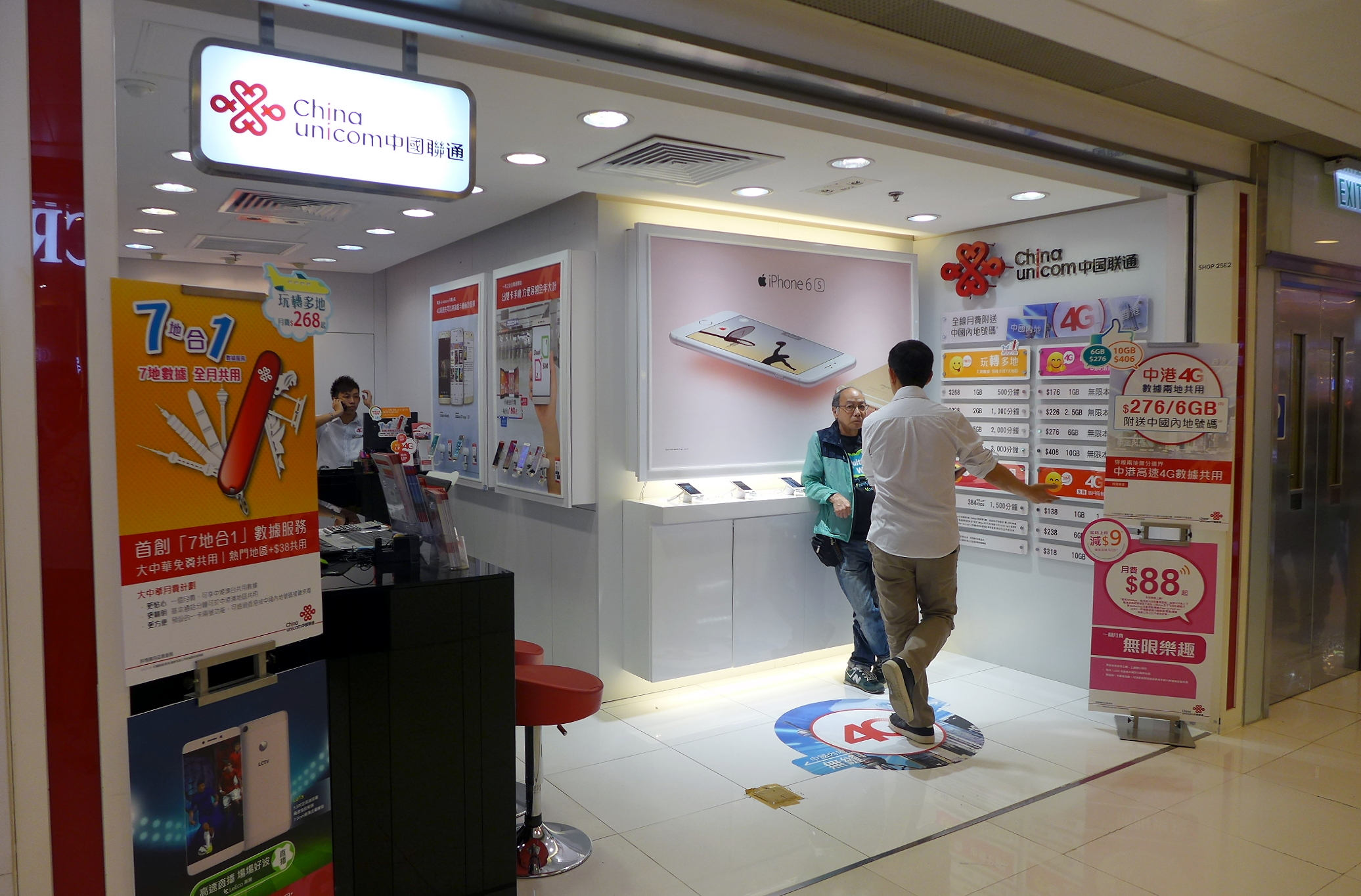 China Unicom in Shatin Plaza